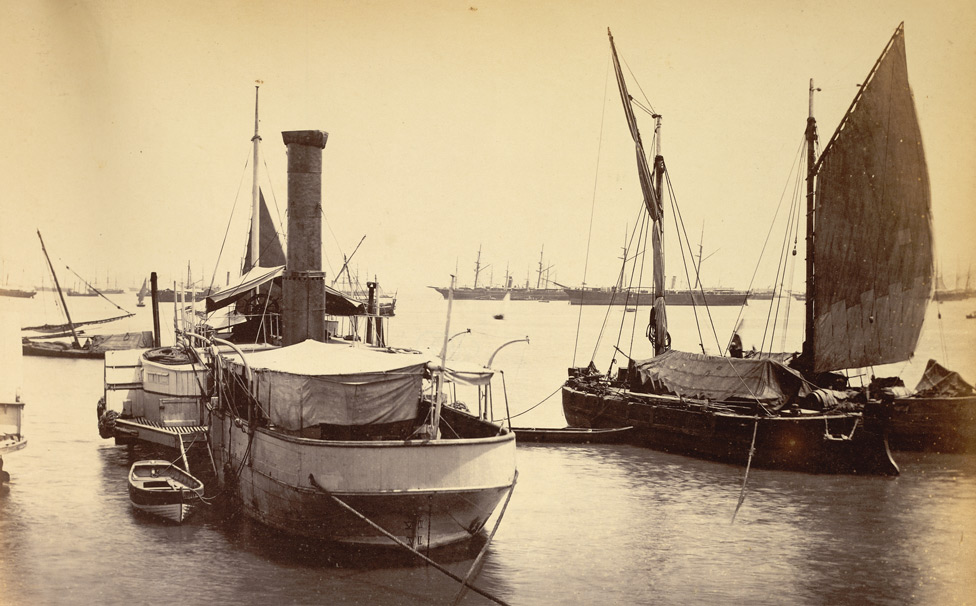 Photograph of ships in the harbour at Bombay from the 'Lee-Warner Collection: 'Bombay Presidency. William Lee Warner C.S.' taken by an unknown photographer in the 1870s. Originally Bombay was composed of seven islands separated by a marshy swamp. Its deep natural harbour led the Portuguese settlers of the 16th century to name it Bom Bahia 'the Good Bay'. In 1661, Bombay was ceded to England as part of the marriage dowry of Catherine of Braganza and was transferred to the East India Company in 1668. Spices and finely woven cloth were two of the main exports that helped Bombay to develop into an internationally significant port. Today, Bombay is one of India's major industrial centres and the capital of Maharashtra.